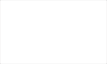 flag of the xeic of mushasha dinasty, ruling the independent state of Mohammara before 1925